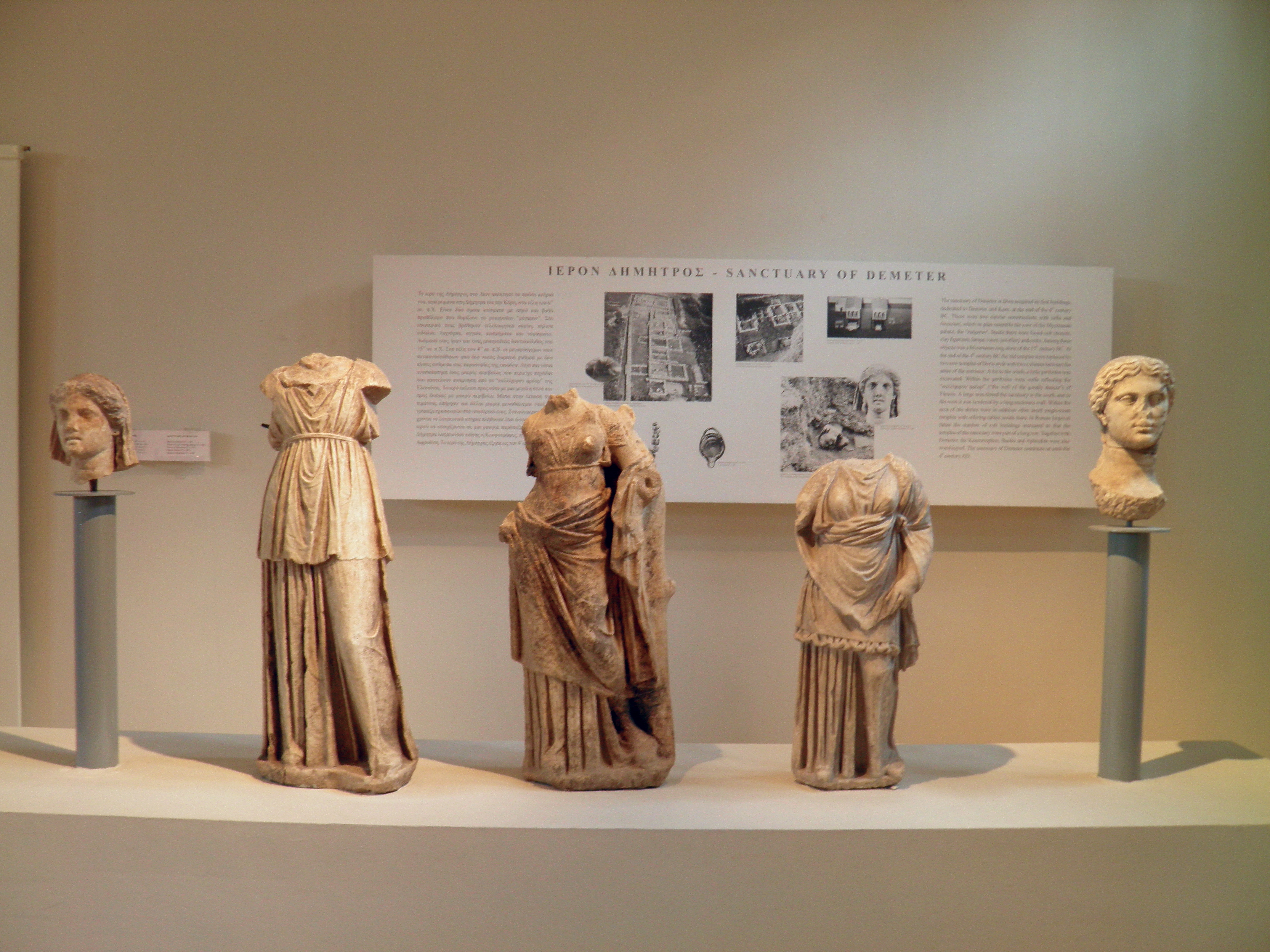 Finds from the sanctuary of Demeter, Archaeological Museum, Dion